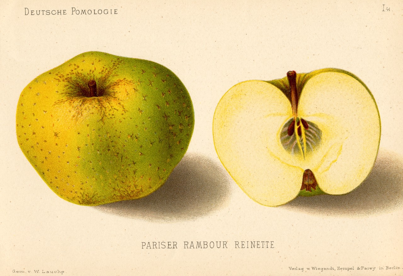 Illustration 41 from Deutsche Pomologie - Aepfel Apple cultivar shown: Pariser Rambour-Reinette